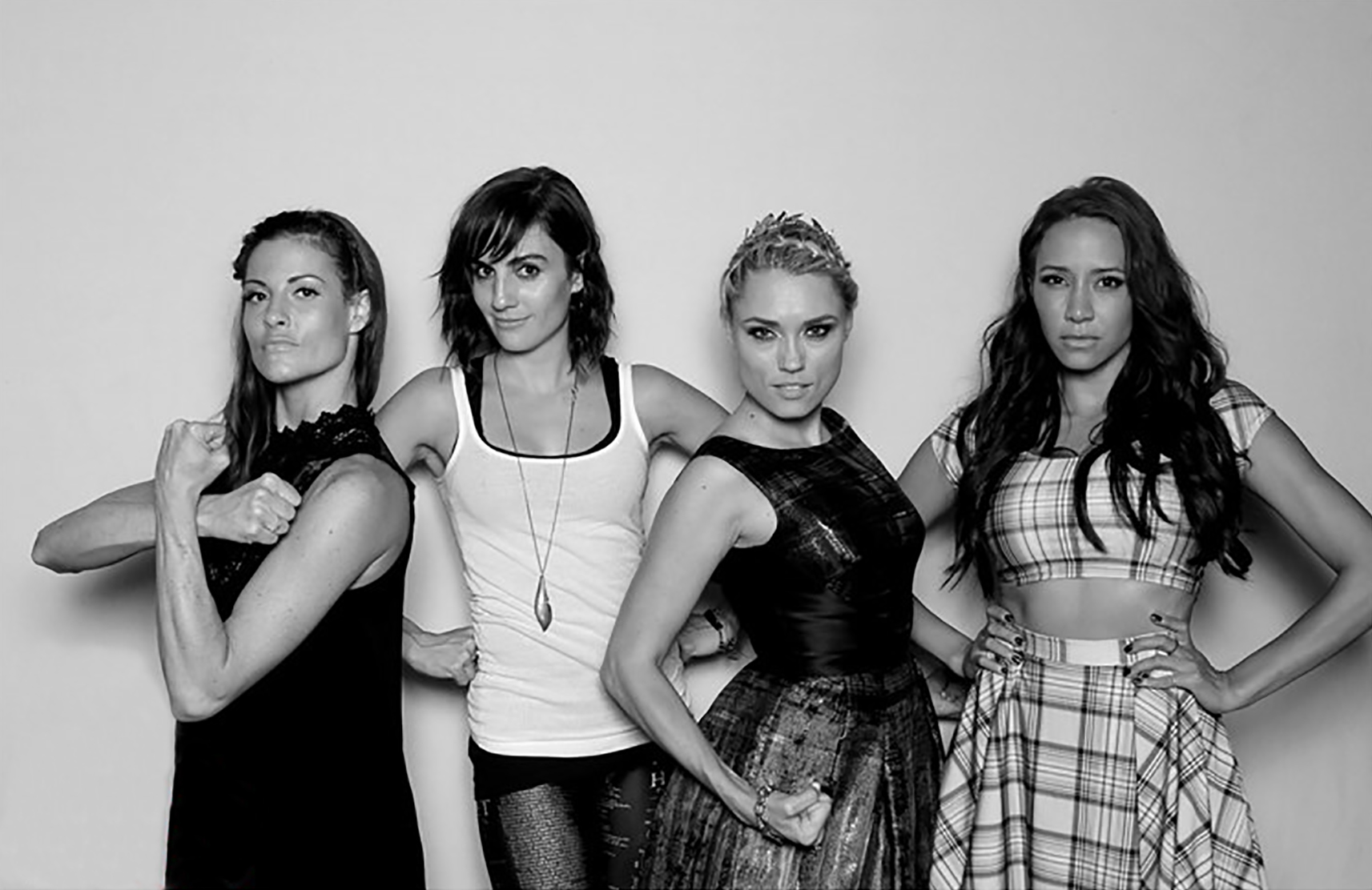 Photo of Team Unicorn at Comic-Con on July 11, 2015